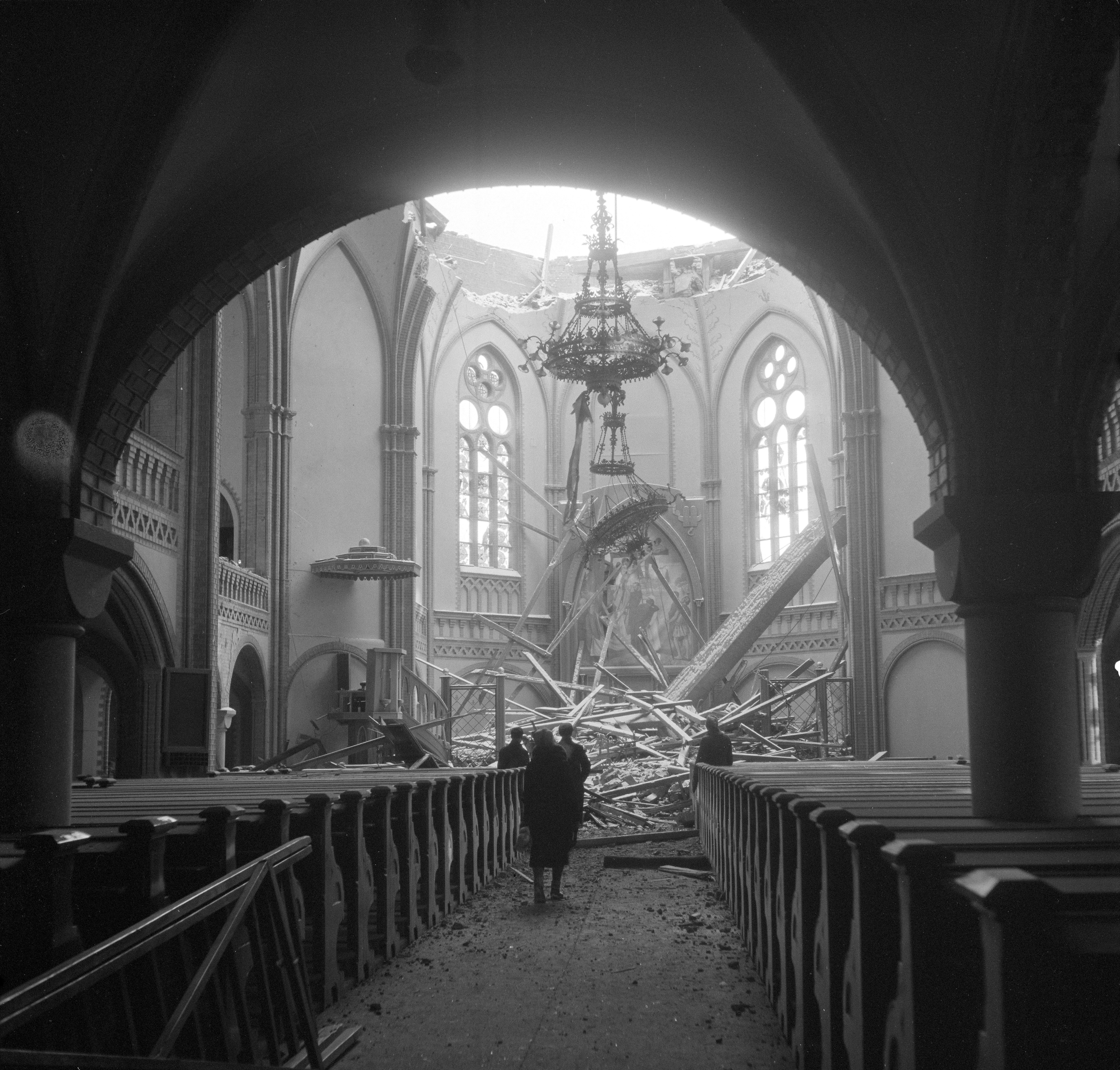 Vyborg Cathedral after bombing during the Winter War